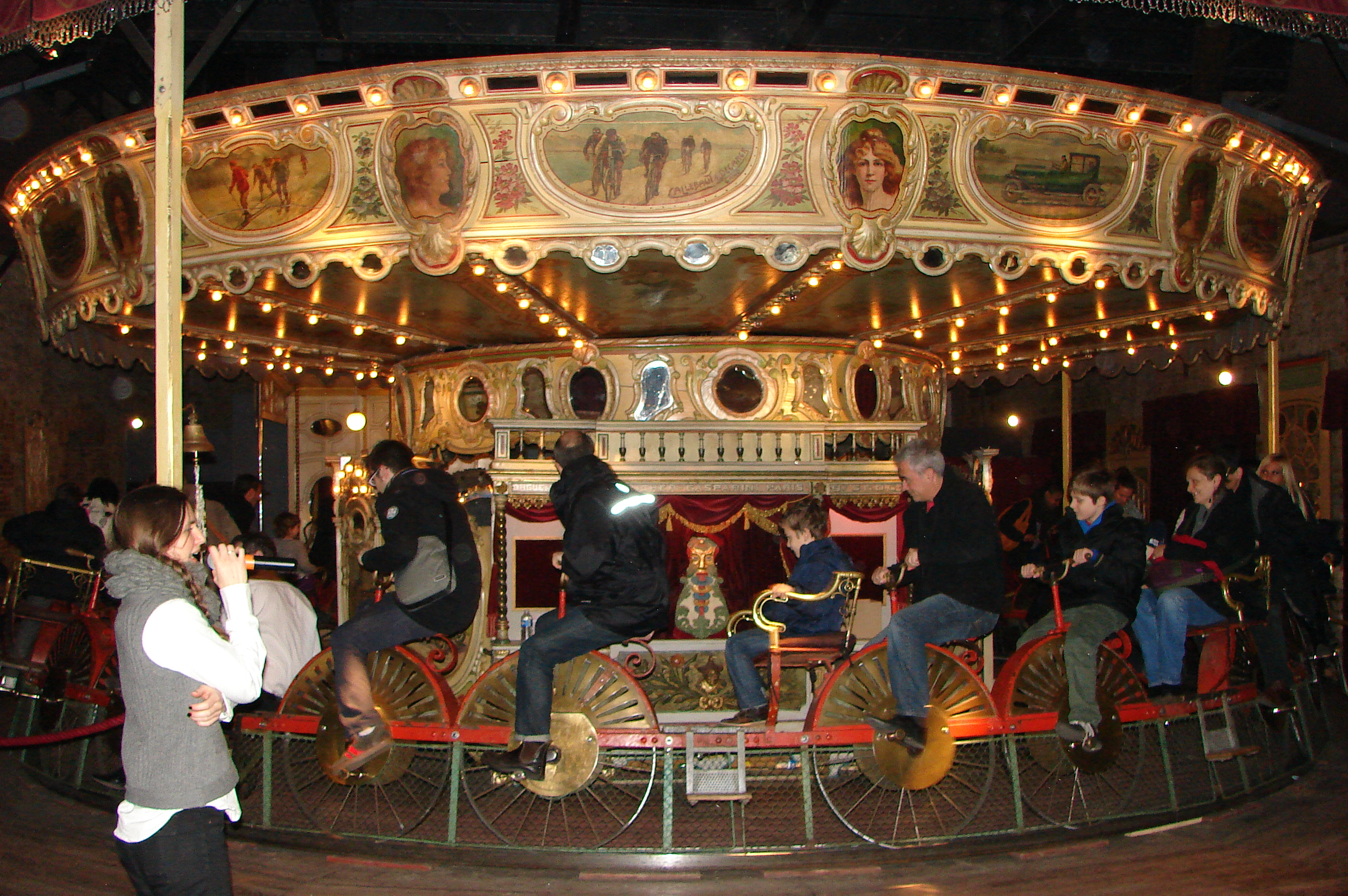 Manège vélocypédique du Musée des Arts Forains at Paris. Made in 1897, it reaches a maximal speed of 68km/h.